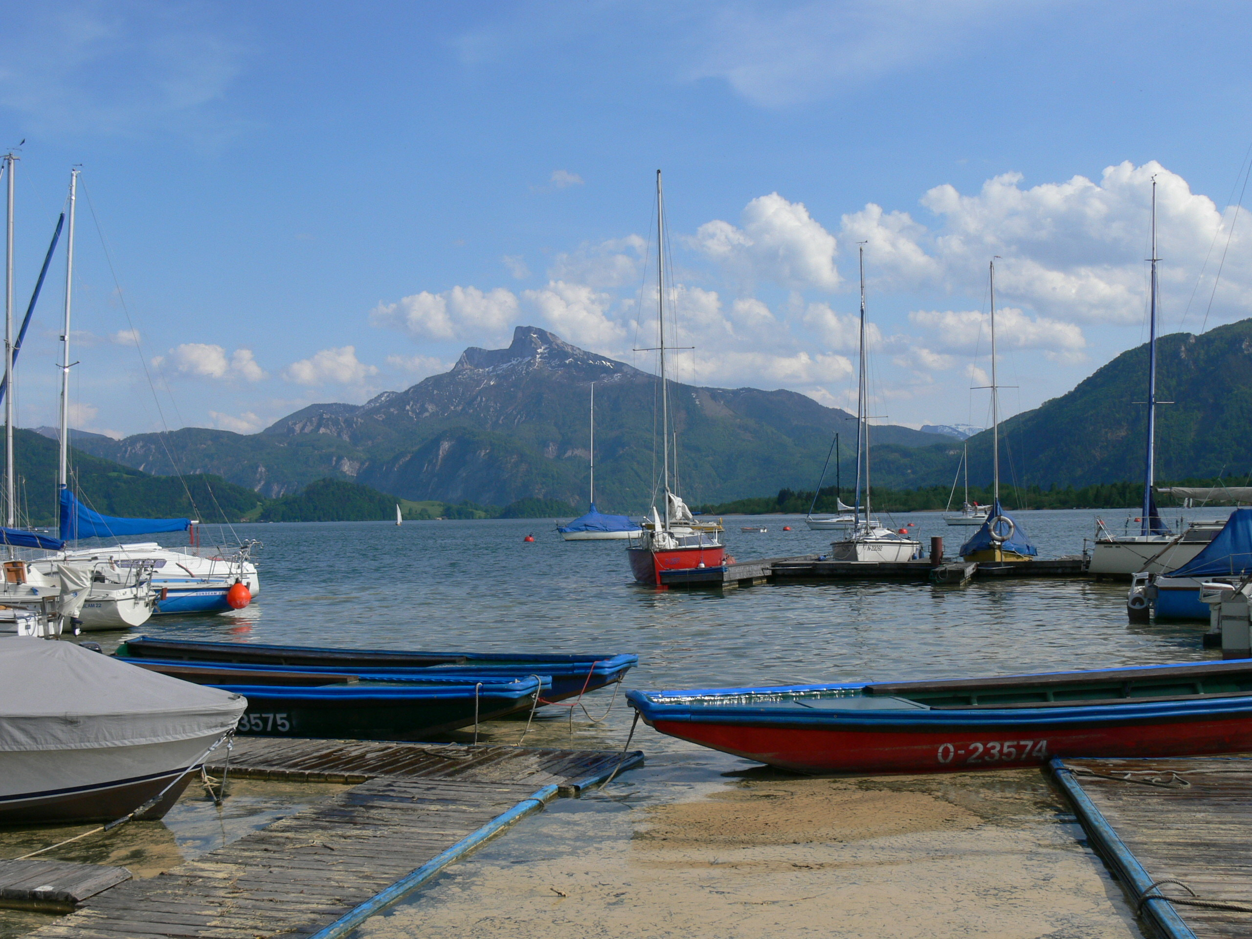 Mondsee (Upper Austria). Harbour at the lake.